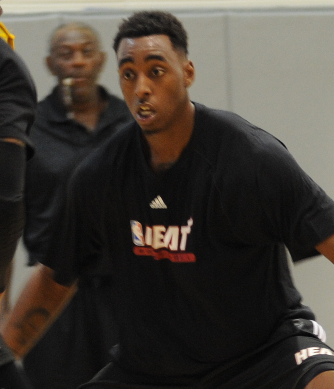 LeBron James, Miami HEAT forward, left, prepares to take the basketball around the defense of Mickell Gladness, HEAT center, during a preseason practice session at the Aderholt Fitness Center at Hurlburt Field, Fla., Sept. 28, 2010. The team requested the use of the fitness center for their week-long training camp, and 1st Special Operations Wing leadership agreed to support the visit. (DoD photo by U.S. Air Force Senior Airman Sheila deVera/RELEASED)